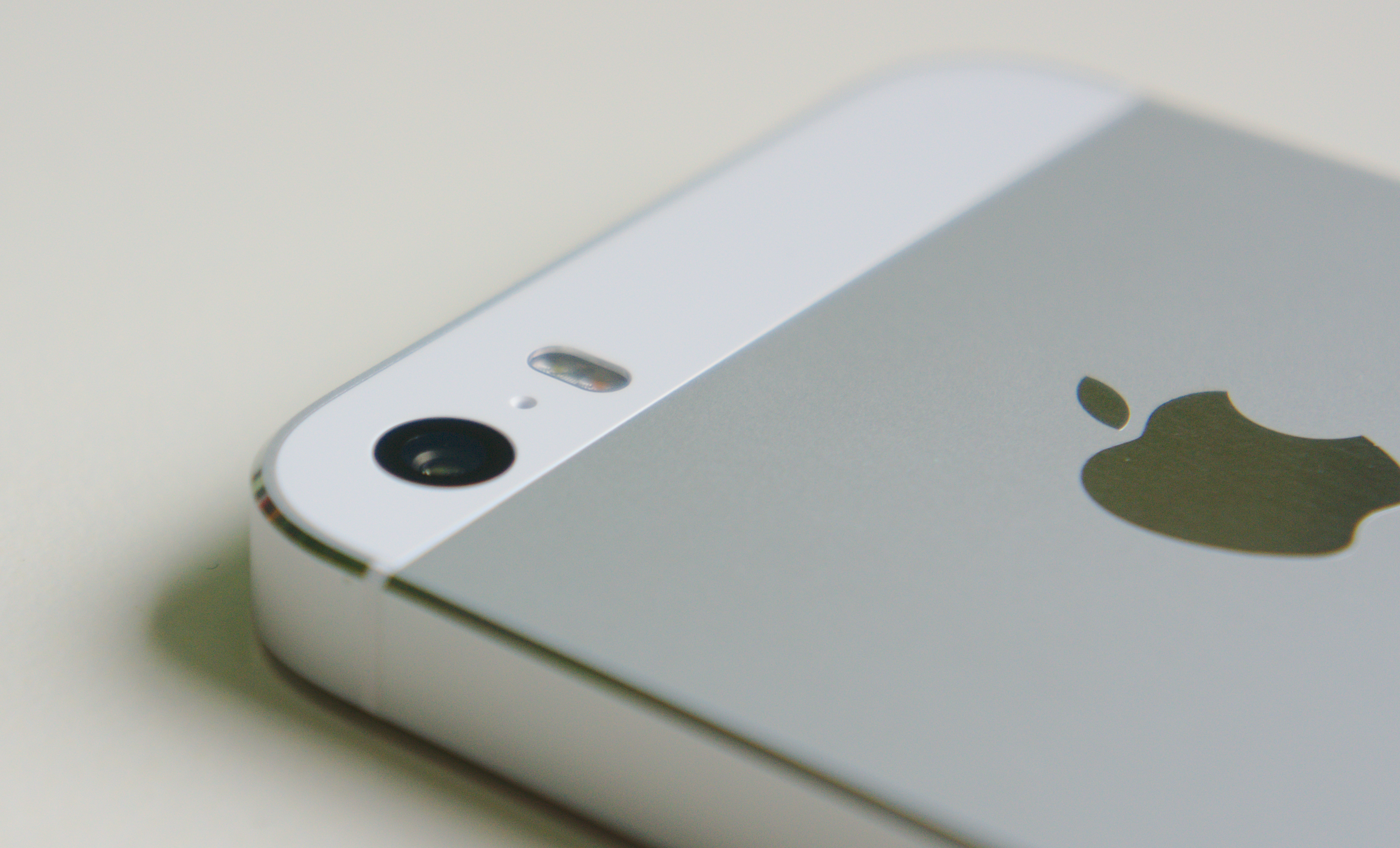 A closeup of the iPhone 5S back camera and two tone flash